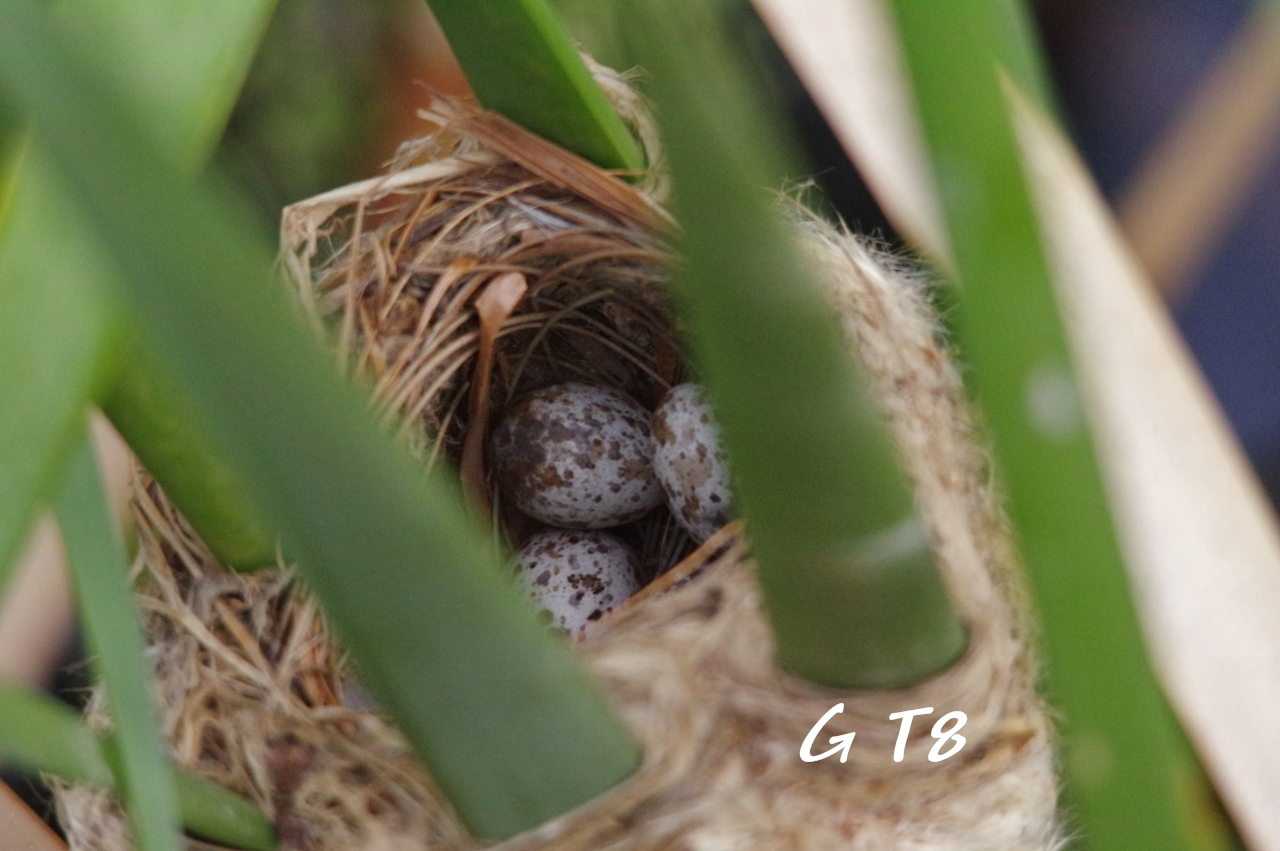 Reed Warbler nest with 4 eggs, Lake Joondalup, Western Australia